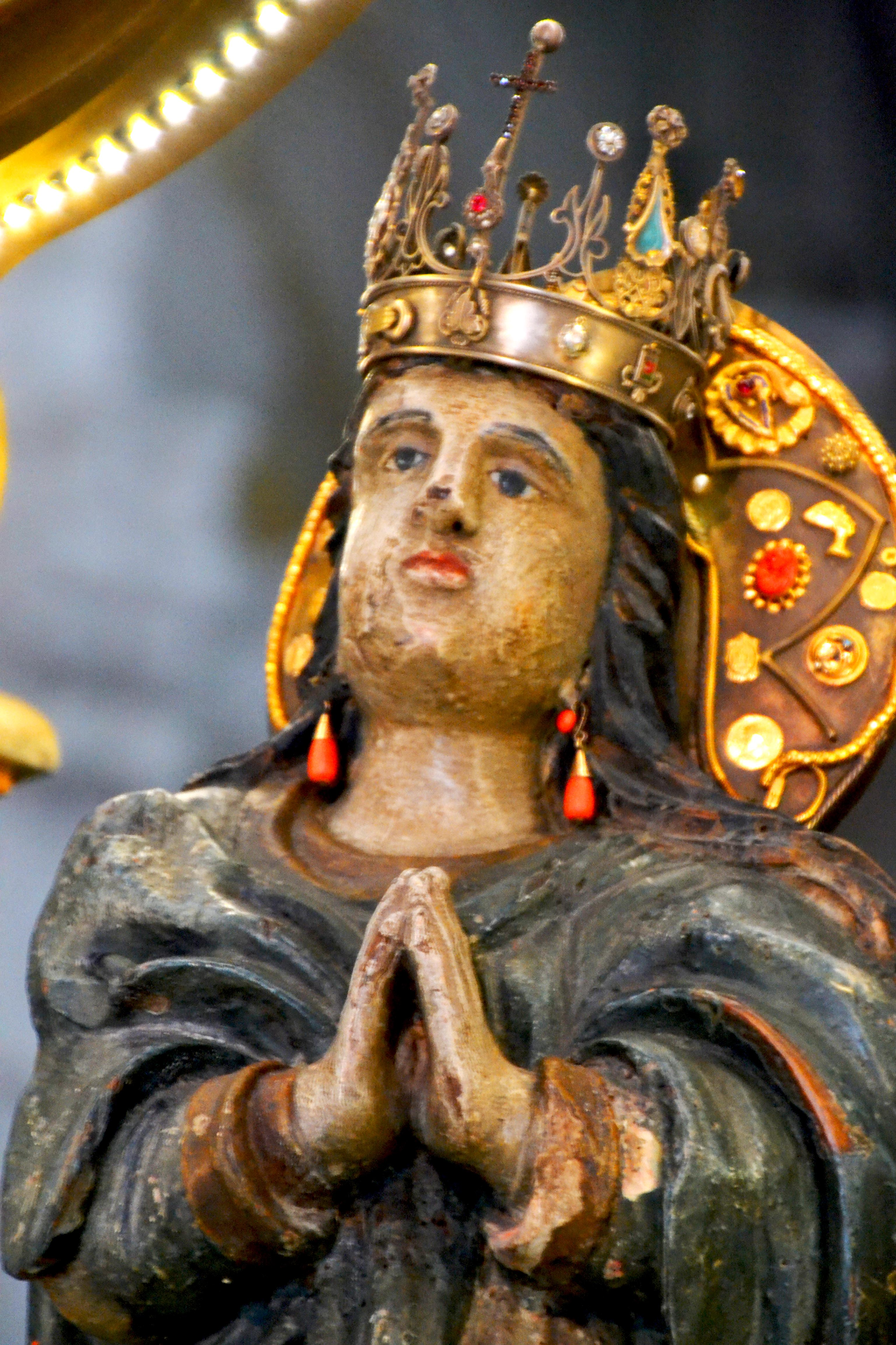 detail of the face of the statue of tha Madonna dello Schiavo worshipped in Carloforte